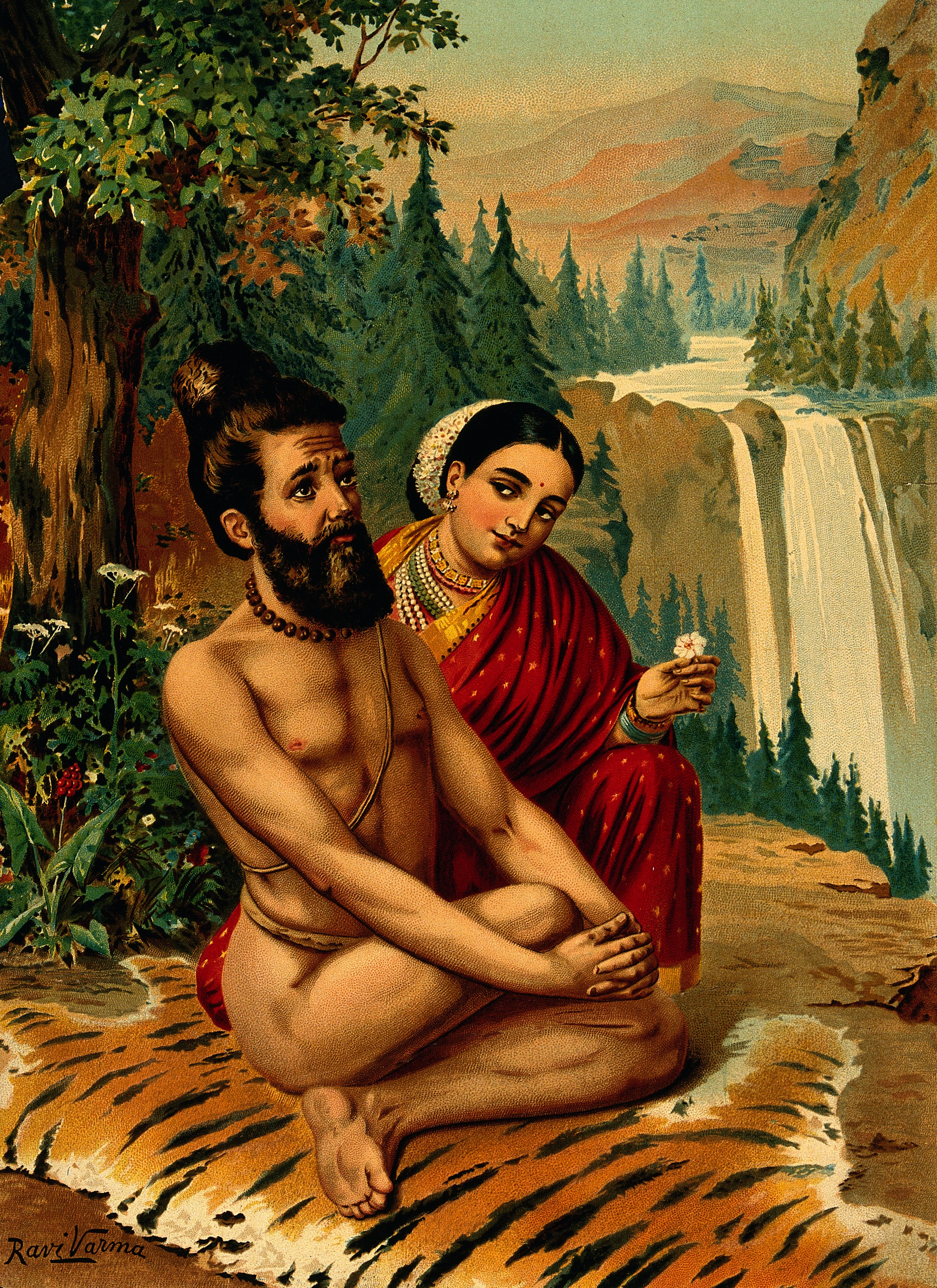 Menaka the nymph temping the yogi. Iconographic Collections Keywords: Hinduism; Mythology; Yogis; Ravi Varma